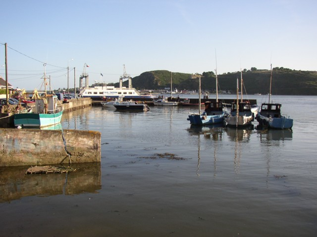 Ballyhack Harbour, Co. Wexford. The car ferry has just arrived from Passage East, near Waterford.